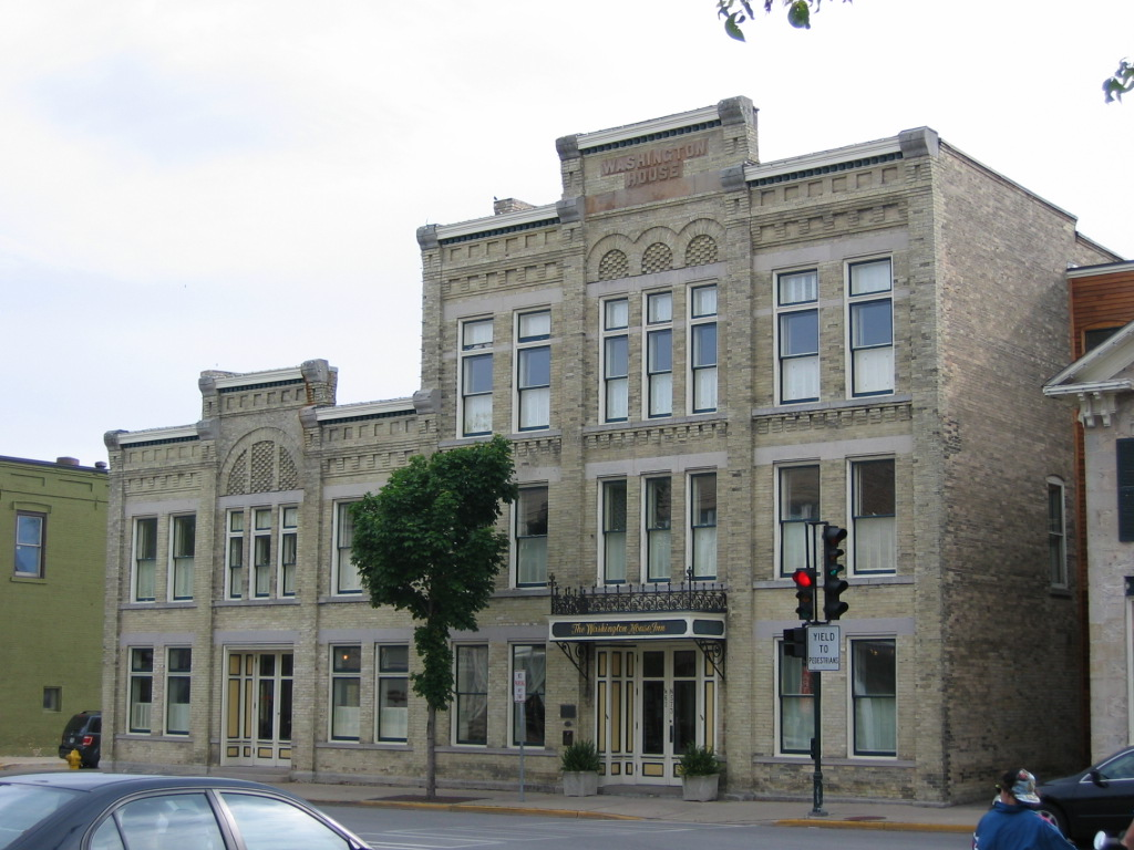 The Washington House Inn is a 34 room bed and breakfast in Cedarburg, Wisconsin that was built in 1884